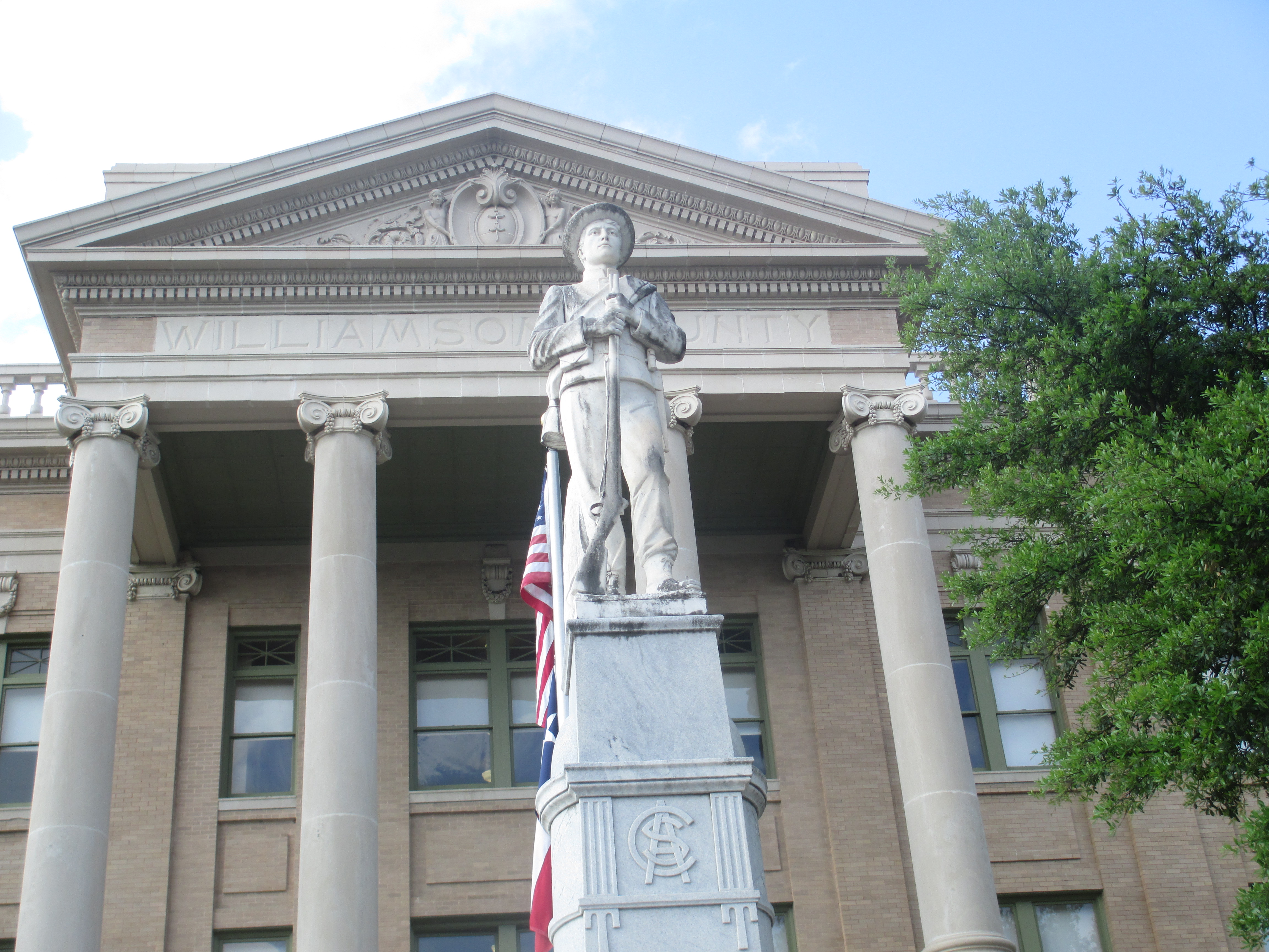 I took photo of Confederate soldier statue in front of the Williamson County Courthouse in Georgetown, TX, with Canon camera, April 7, 2013.Billy Hathorn (talk) 11:19, 10 April 2013 (UTC)